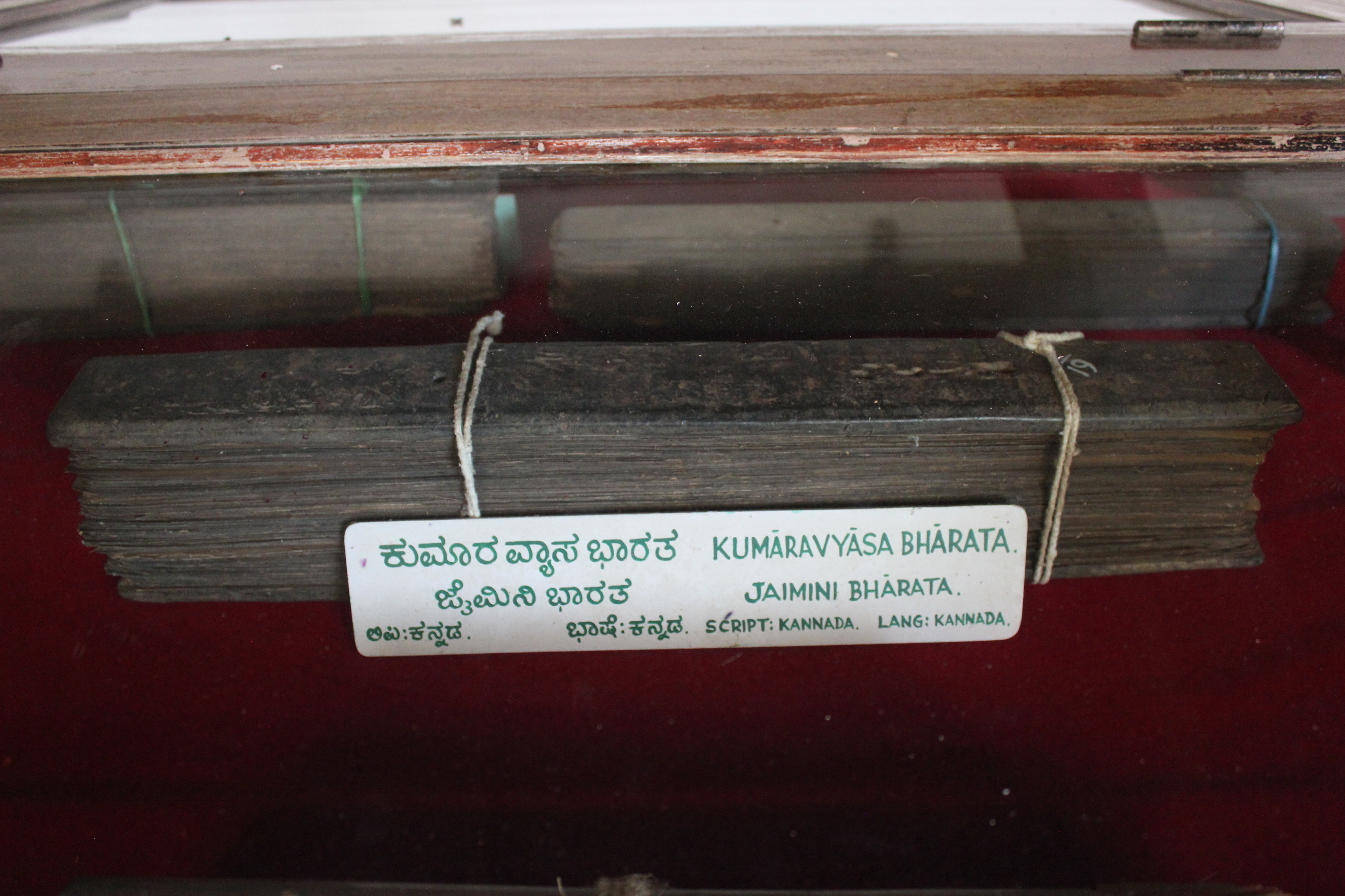 Kumaravyasa was the author of the Kannada epic poem (Mahakavya) Kumaravyasa Bharata (also called Gadugina Bharata). He was in the patronage of the Vijayanagara Empire king Devaraya II. Lakshmisha (16th-17th century) was the author of the popular Kannada epic poem Jaimini Bharata. Photographed at the Shivappa Nayaka palace and museum in Shivamogga (Shimoga), Karnataka state, India. A medieval classic written on Talegari (palm leaf)